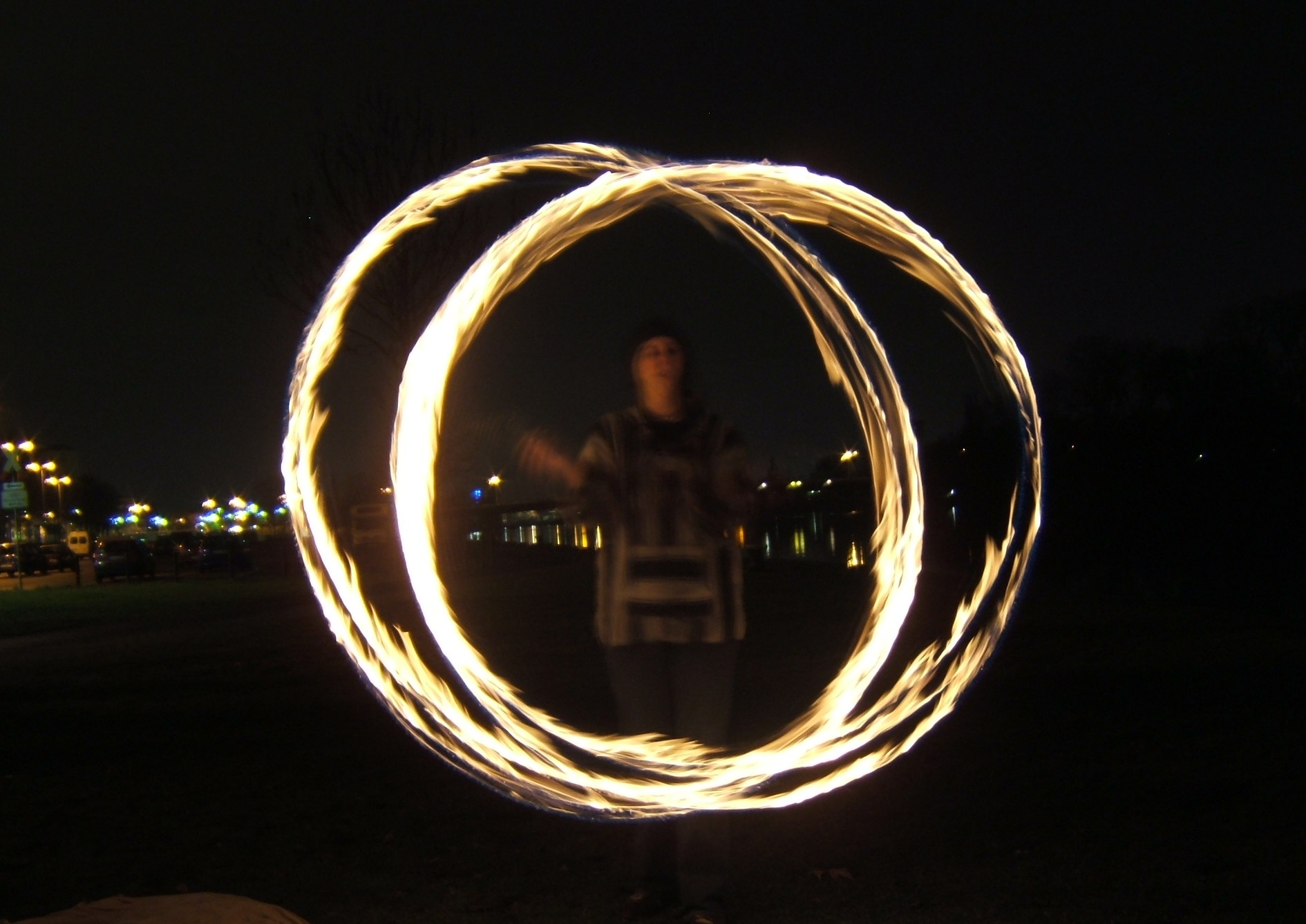 Juggling with flamming poi